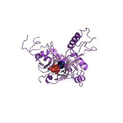 Cartoon representation of the molecular structure of protein registered with AAAA code.